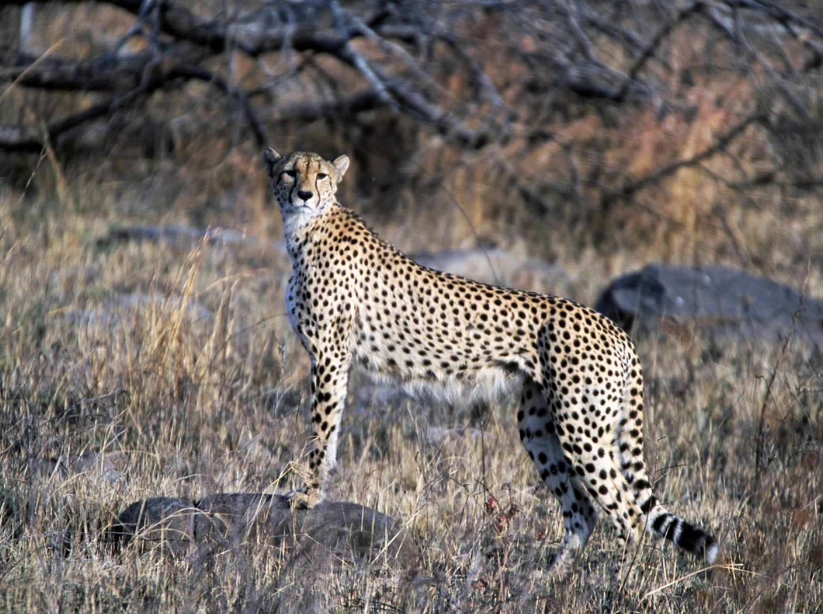 Cheetah during morning safari drive